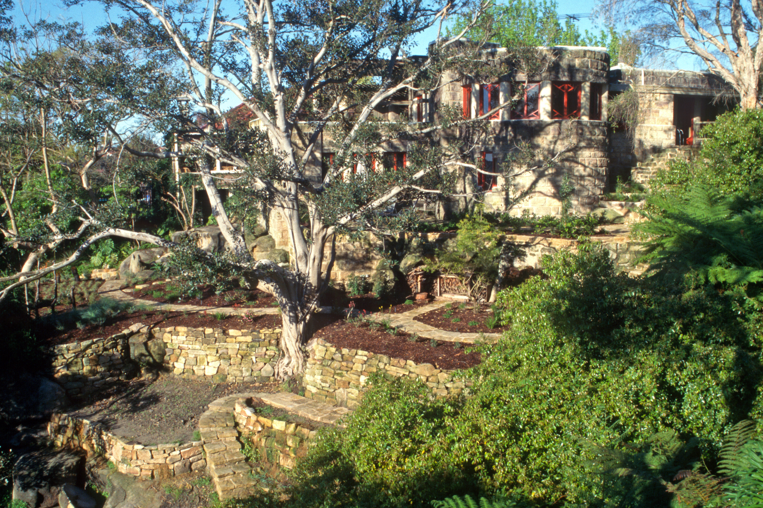 The three-year restoration was overseen by a professional heritage architect, a leading landscape designer and a native garden specialist.